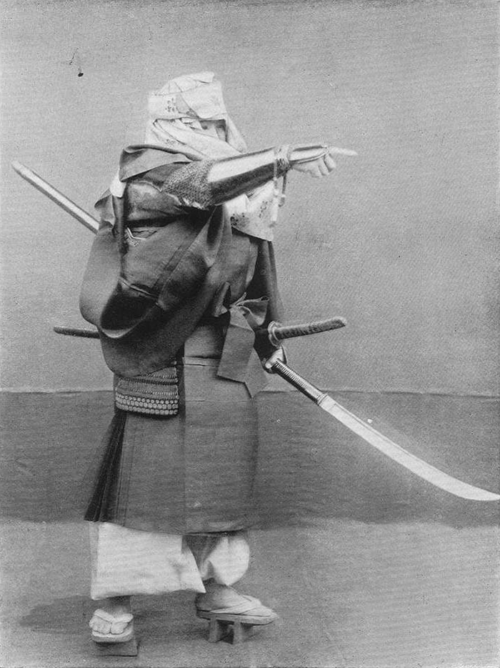 (Discription from the original photograph) A Fighting Monk. The above represents a beligerent monk of the Kamakura epoch. The Buddhists of those days had quite an army of fighting priests to protect their rights, or maintain their ground against rival creeds. He wears his clerical robes over his armor, and his head is covered with the sacred Kesa. From:"Military Costumes in Old Japan", Photographed by K. Ogawa, Under the Direction of Chitora Kawasaki of Ko-yu-kai (Tokyo Fine Art School), Tokyo, K. Ogawa, 1895 (Meiji 28)